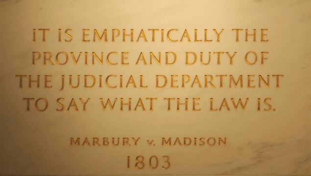 First Floor at the Statute of John Marshall, quotation from Marbury v. Madison (written by Marshall) engraved into the wall. United States Supreme Court Building.